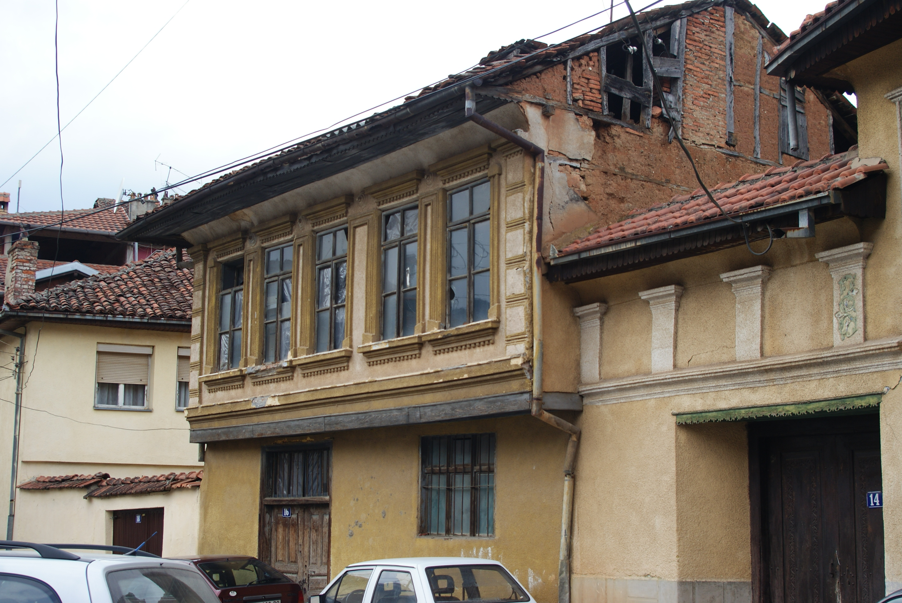 Shemsidin kirajtanit